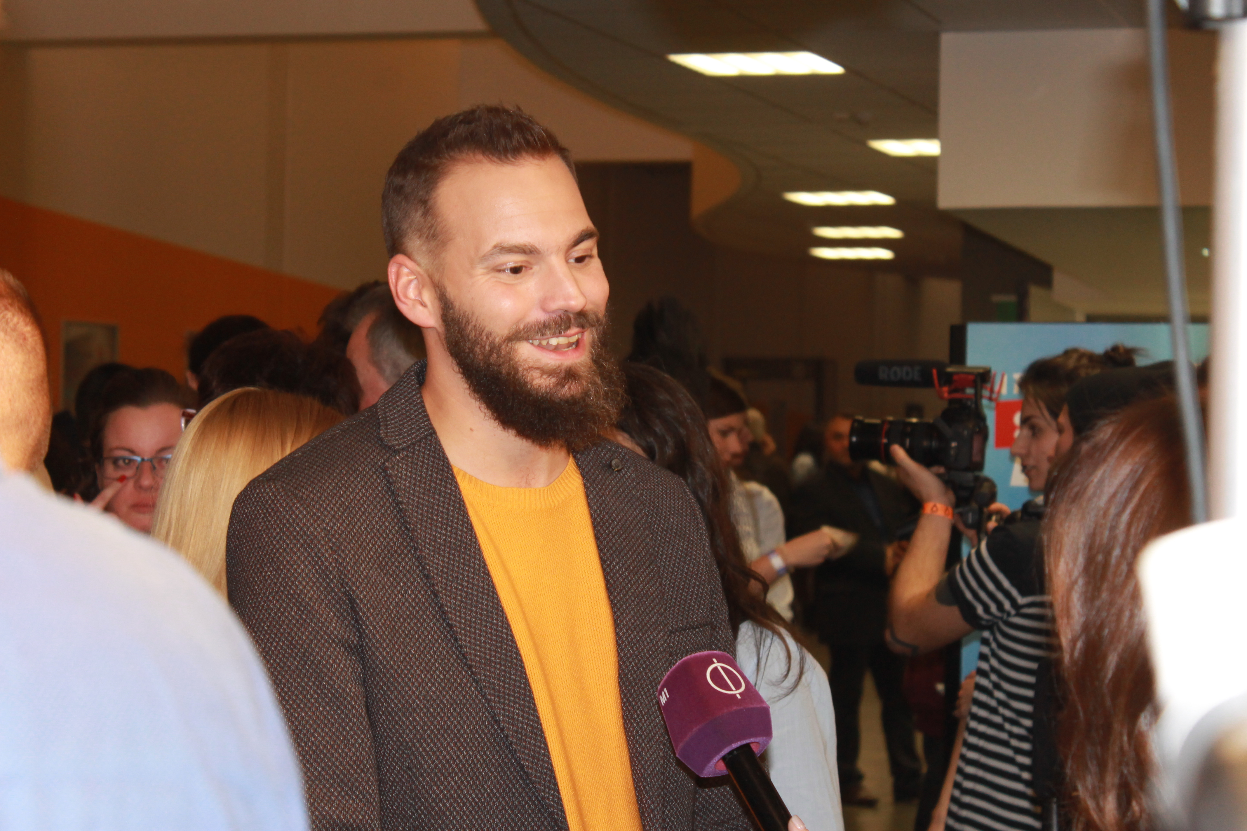 A Dal 2016 finalist, Petruska answers to Hungarian public news channel M1